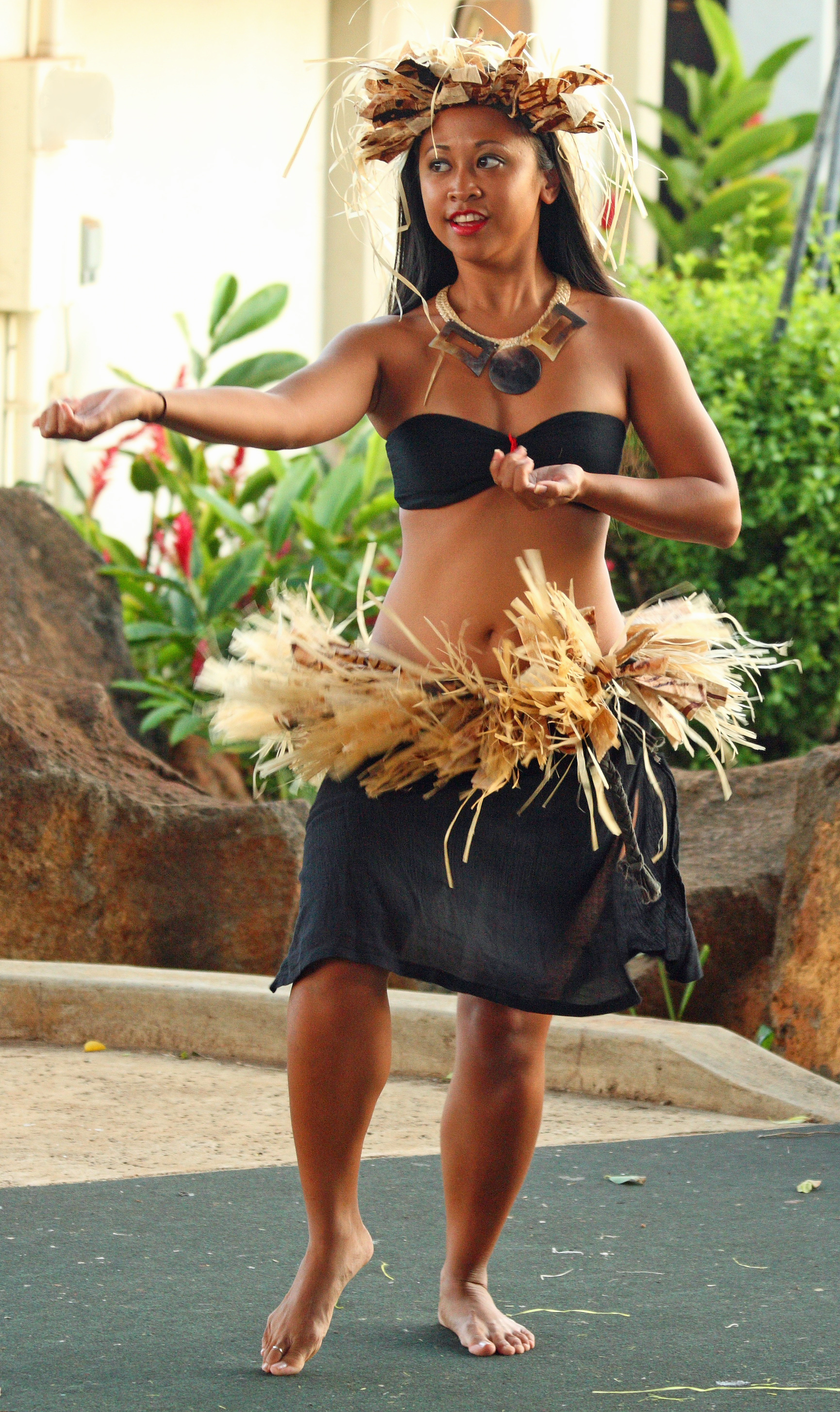 These are oldies but goodies from a trip we took to Kauai back in November 2009 - but it seems like 12 light years ago. The hula show was at a little shopping center - I think it's held three times a week. The dancers were actually very good and it was a fun show to watch. Shooting it was a little bit harder since the stage is bounded on three sides by stores in the shopping center and a parking lot - and any time I tried to snap a shop I noticed some (usually very large) person stopped right behind the dancer so I was trying to get them out of the photo. Hopefully I'll have better luck if we go back again this year!